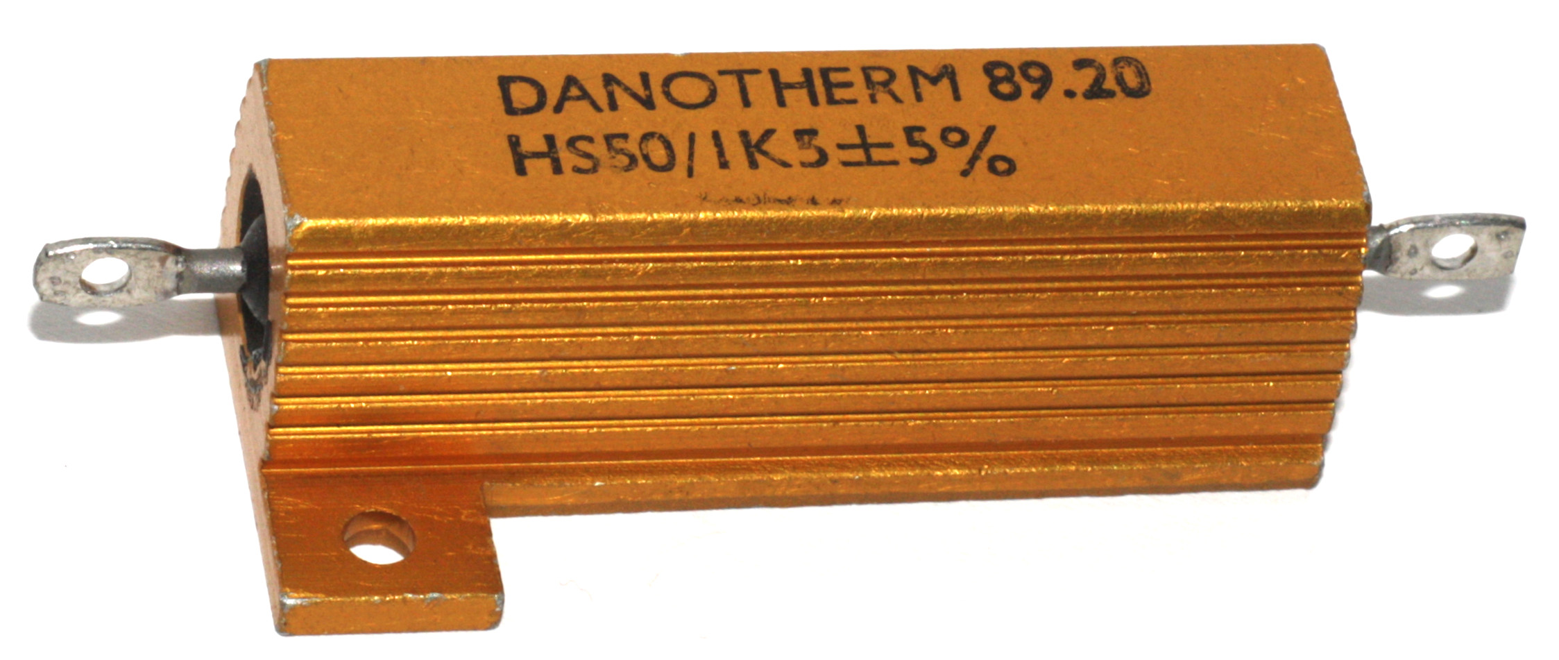 Danotherm HS50 aluminium-housed wire-wound power resistor